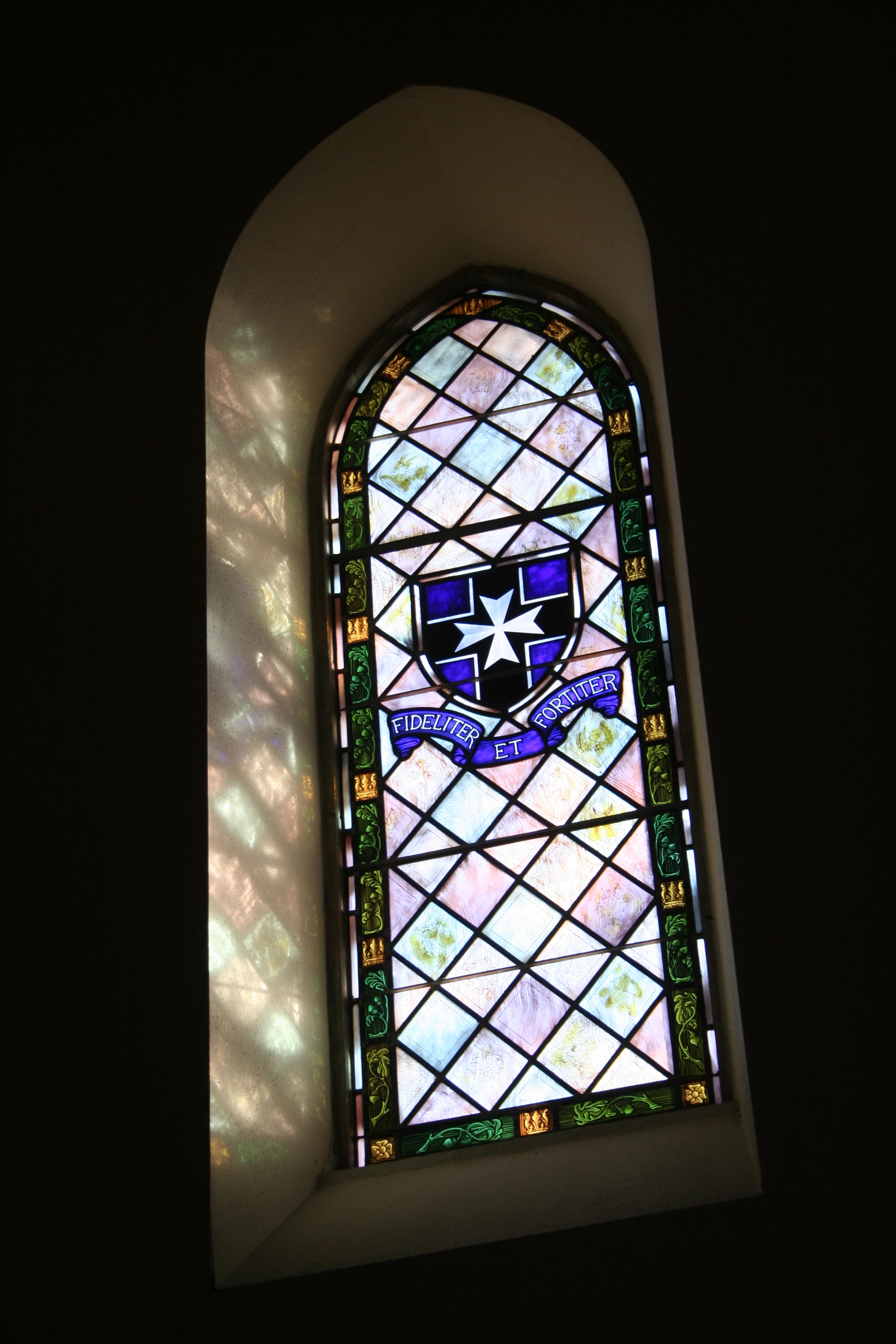 Self-made image